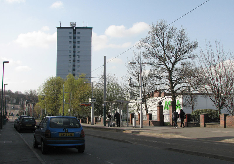 Noel Street tram stop. The photo also shows the back of the Asda supermarket and Hyson Green's only tower block.